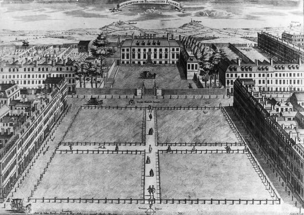 A print of circa 1725 showing Southampton or Bloomsbury Square in London. The reason for the artist's uncertainty about the name is that the ownership of the freehold of the square had recently passed from the Earls of Southampton, after whom it had been named, to the Dukes of Bedford. Bloomsbury Square later became the settled name. The view is facing north. The large house with the front courtyard is Bedford House, formerly Southampton House, which was demolished circa 1800.